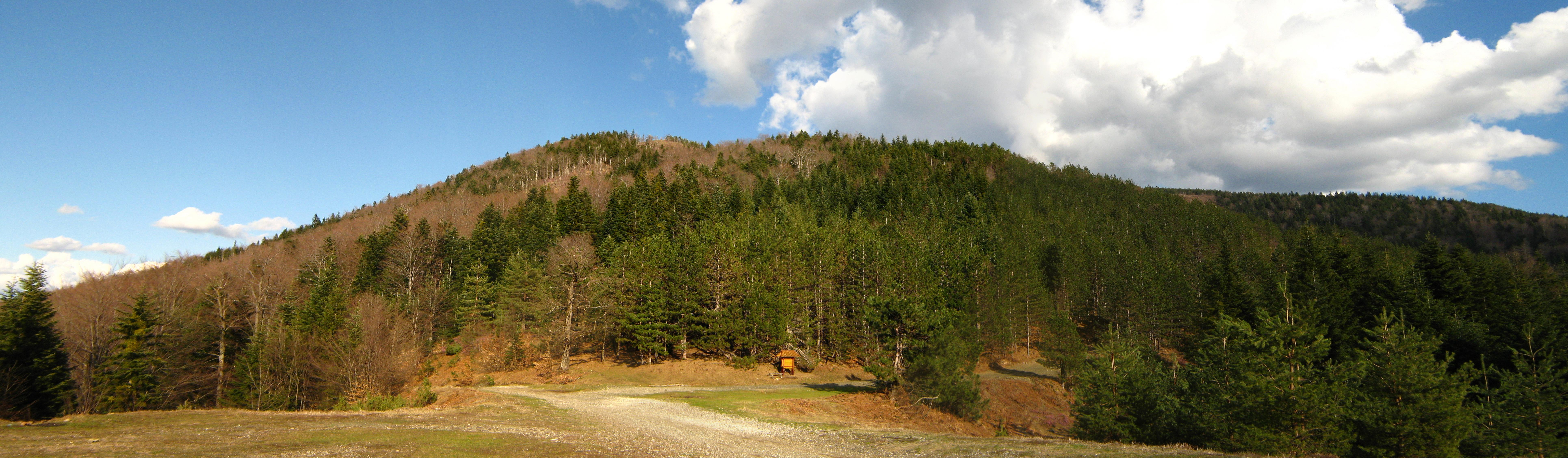 Borja mountain near Teslić in Republic of Srpska